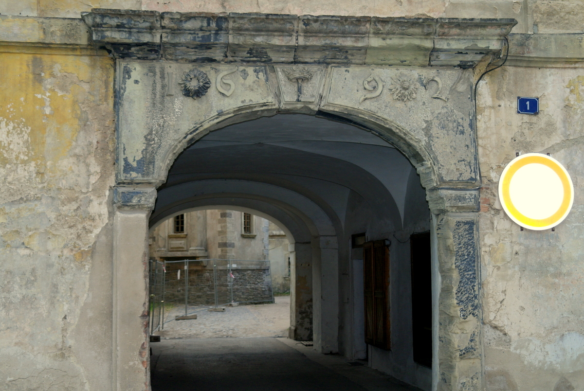 Doksany Convent, Doksany 1, Doksany. The gateway to the second courtyard